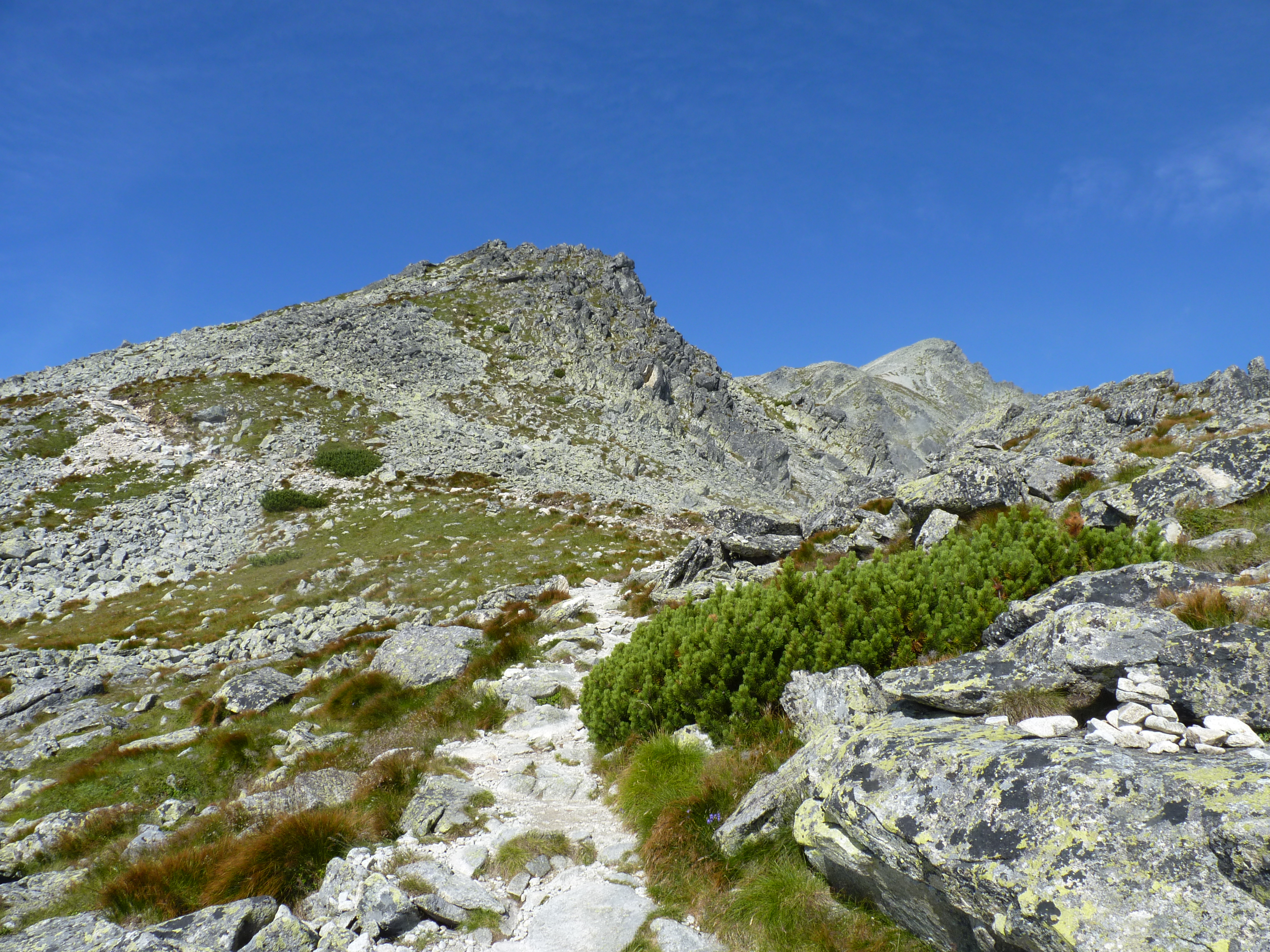 National nature reserve Slavkovská dolina ("Slavkovská Valley"), Tatra Mountains, Slovakia